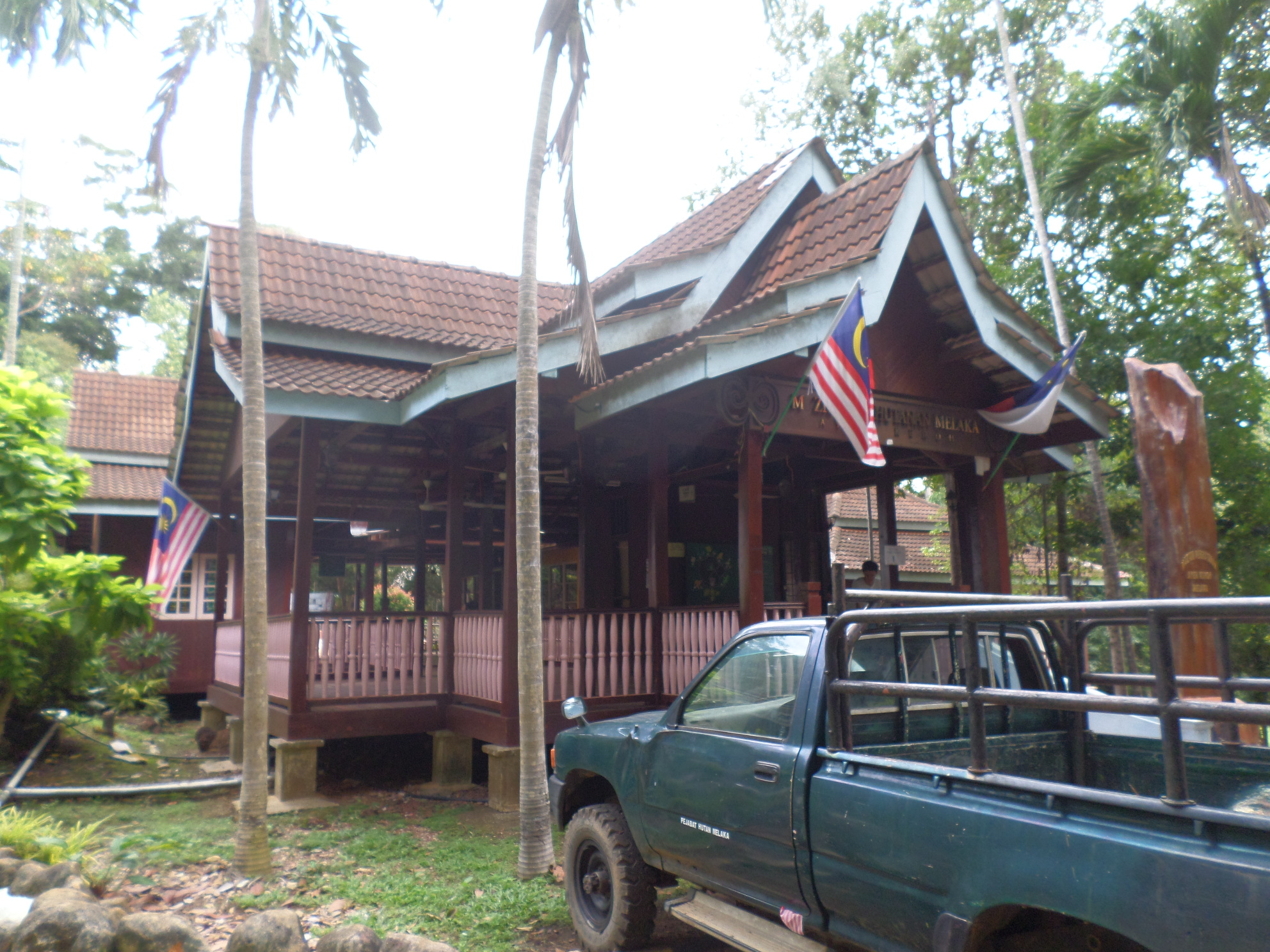 Melaka Forestry Museum, Melaka Botanical Garden, Ayer Keroh, Central Melaka, Melaka, MalaysiaBahasa Melayu: Muzium Perhutanan Melaka, Taman Botanikal Melaka, Ayer Keroh, Melaka Tengah, Melaka, Malaysia